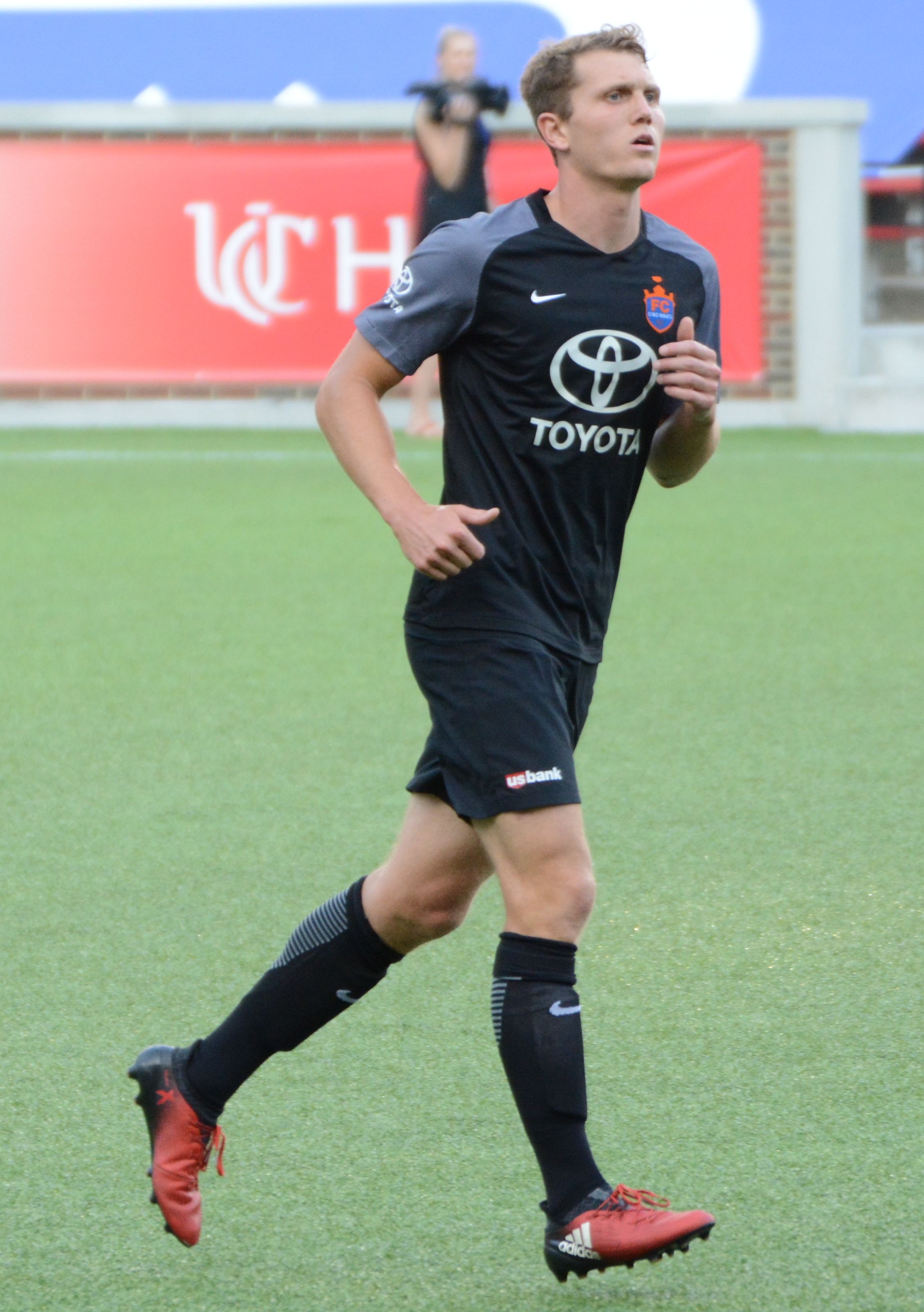 American soccer player Garrett Halfhill, a defender for FC Cincinnati, running out onto the pitch at a Lamar Hunt U.S. Open Cup match between FC Cincinnati and AFC Cleveland at Nippert Stadium in Cincinnati, Ohio on May 17, 2017.